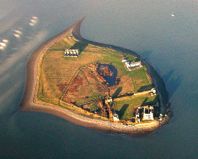 Piel Island and Castle, Barrow-in-Furness. Near to Roa Island, Cumbria, Great Britain. Geographical data: Subject Location OSGB36: SD2363 [Accurate to ~1000m] WGS84: 54:3.7046N 3:10.2162W [54.06174,-3.17027]